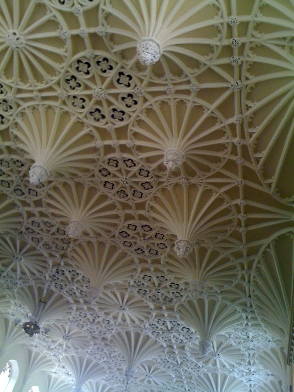 St Malachy's Church Belfast features a unique fan vaulted ceiling